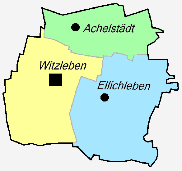 District-Map of Witzleben in Thuringia.